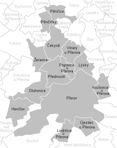 Cadastral map of Přerov